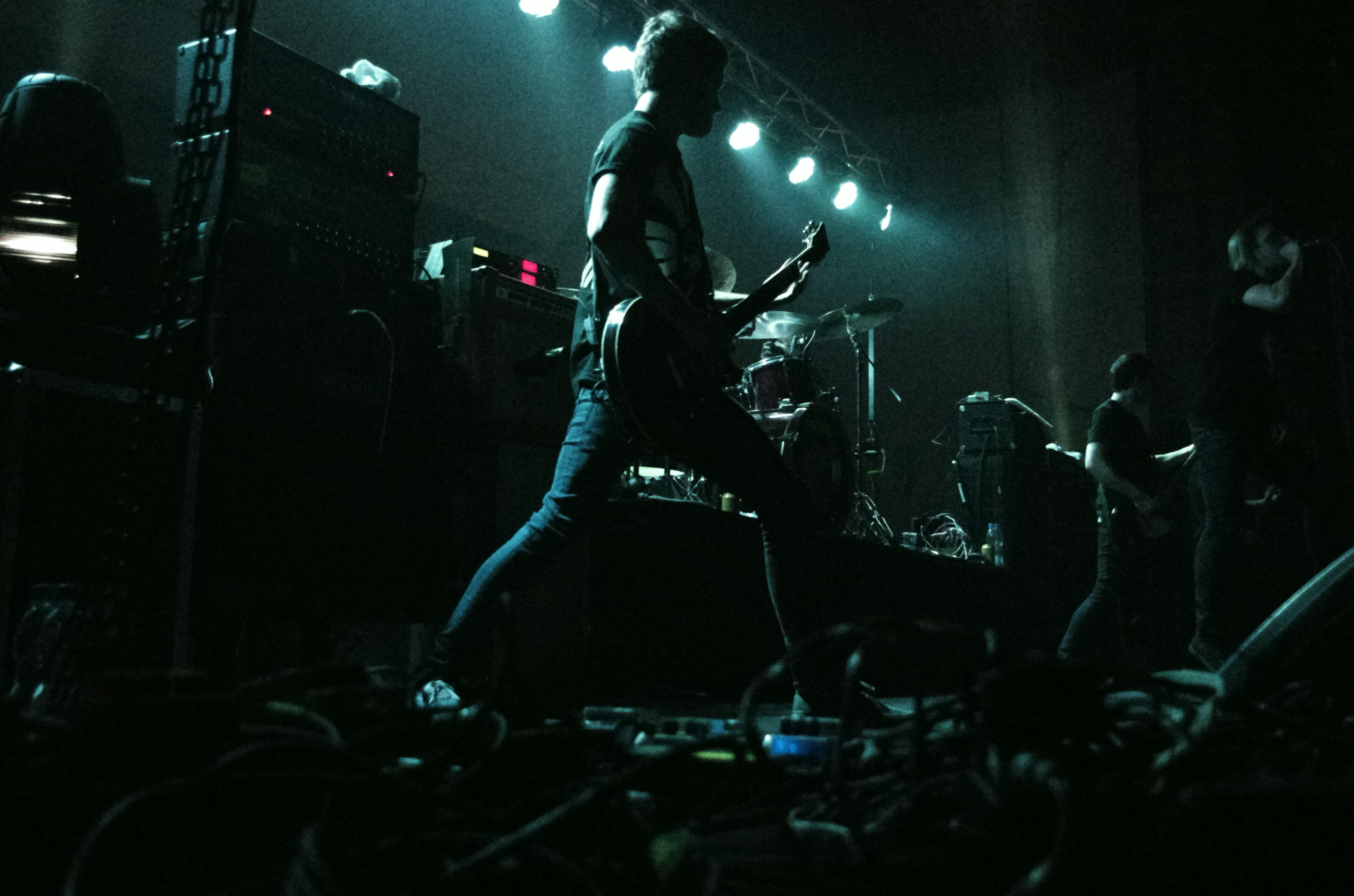 Architects' guitarist Tom Searle performing live in Bogotá, Colombia at the Teatro Metro Bogota on 27 April 2012.